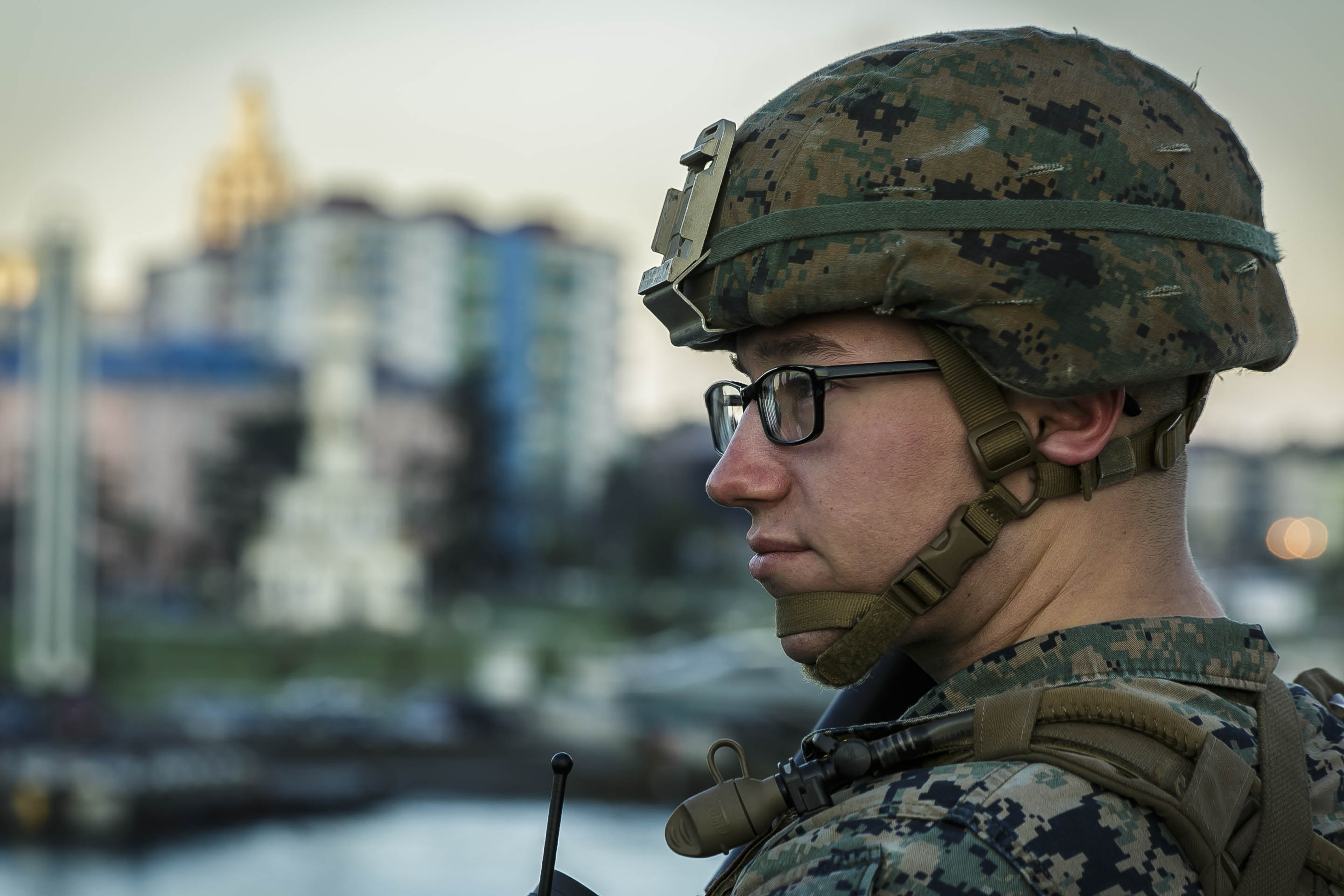 180317-M-RT059-0172 BATUMI, Georgia (March 17, 2018) Marine Corps Lance Cpl. Jacob Godwin, a native of Portland, Conn., and an infantry Marine assigned to Fox Company, Battalion Landing Team, 2nd Battalion, 6th Marine Regiment, 26th Marine Expeditionary Unit, stands watch aboard the Harpers Ferry-class dock landing ship USS Oak Hill (LSD 51) as the ship approaches Batumi, Georgia for a port visit. Oak Hill, home ported in Virginia Beach, Virginia, and the 26th MEU are conducting naval operations in the 6th Fleet area of operations. (U.S. Marine Corps Photo by Staff Sgt. Dengrier M. Baez/Released)